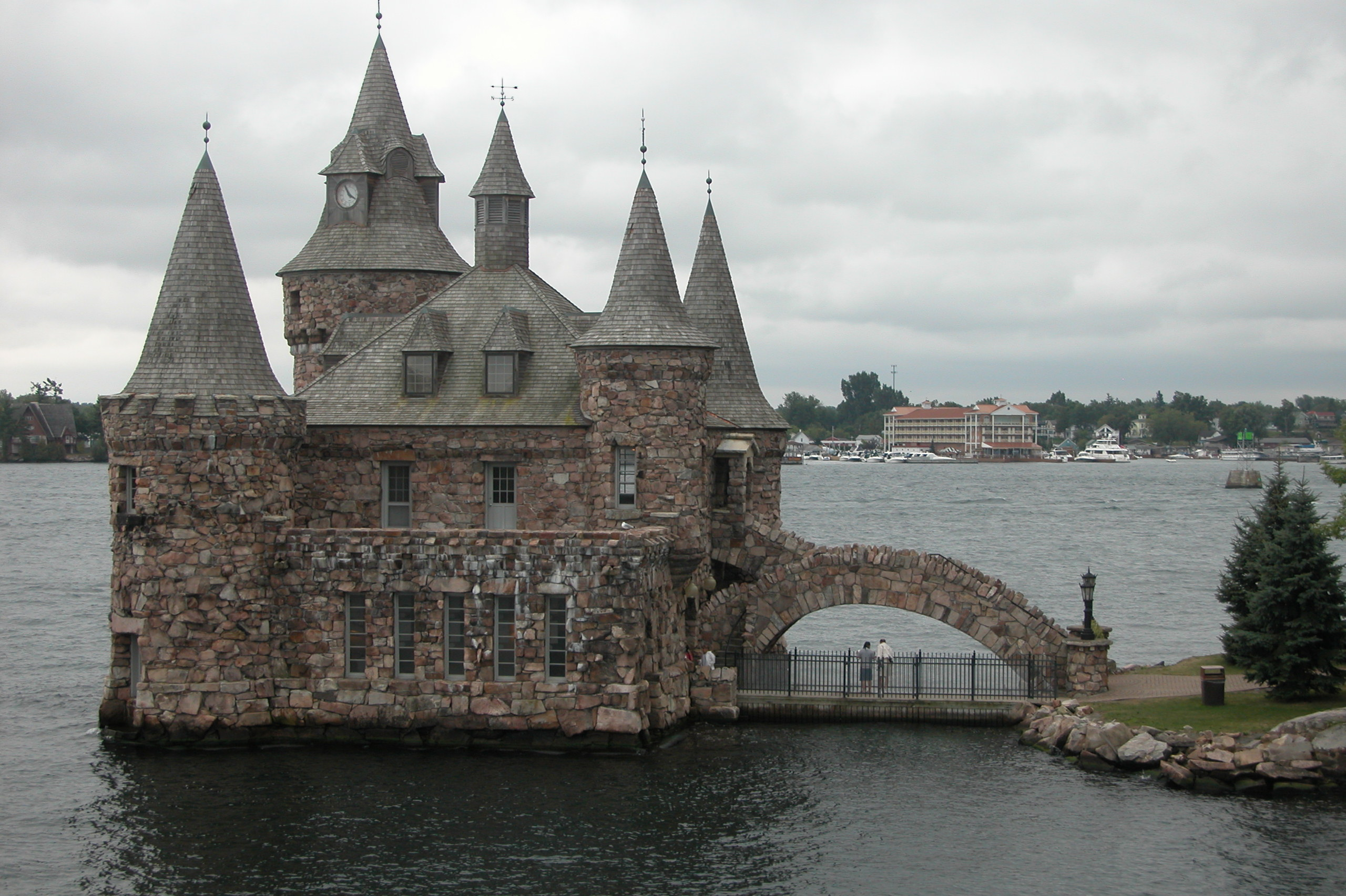 Thousand Island Park Historic District